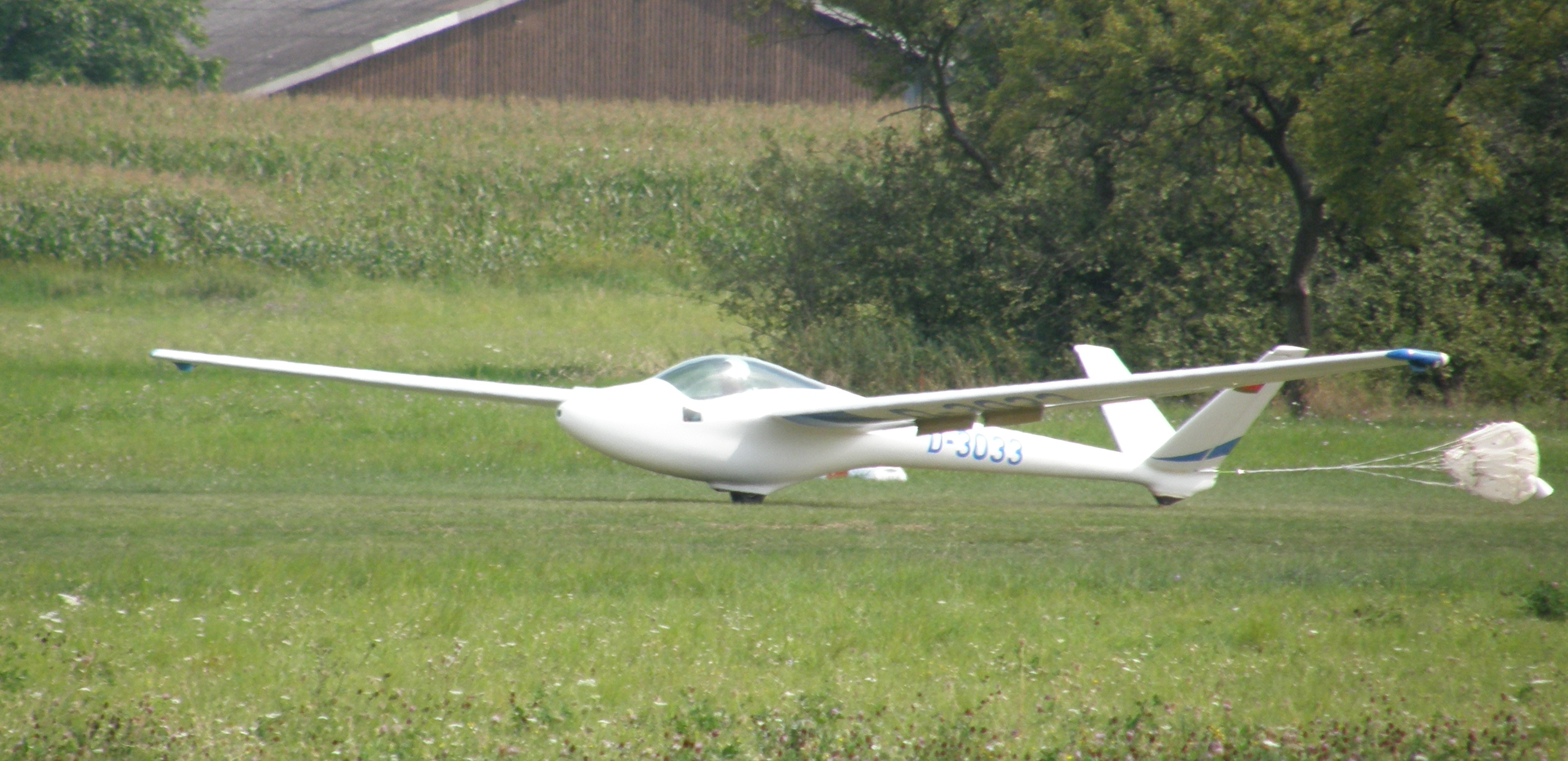 A H101 Salto with drogue parachute.